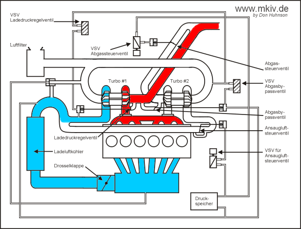 Toyota Supra MKIV Sequential Turbo System 002